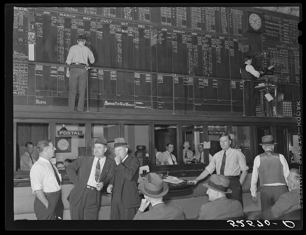 TITLE: Interior of Memphis cotton exchange just before closing. Tennessee CALL NUMBER: LC-USF34- 052570-D [P&P] LOT 1479 (corresponding photographic print)